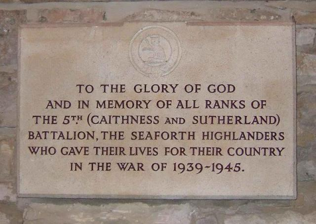 Plaque commemorating the 5th Bn Seaforth Highlanders in the Second World War. In the Nave of Dornoch Cathedral.